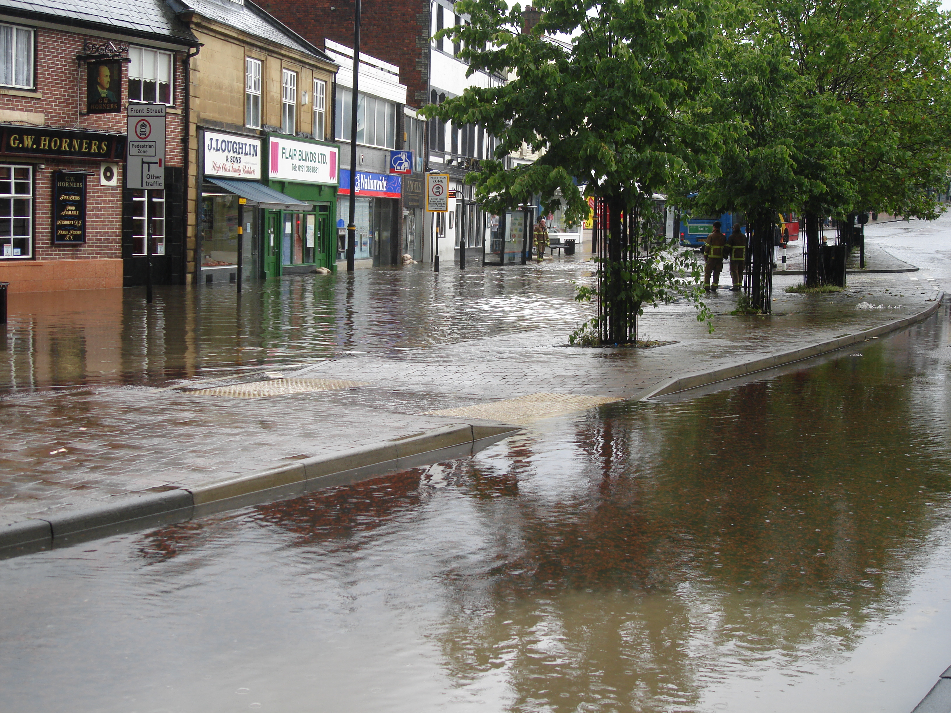 Flooding in Chester-le-Street, on Front Street